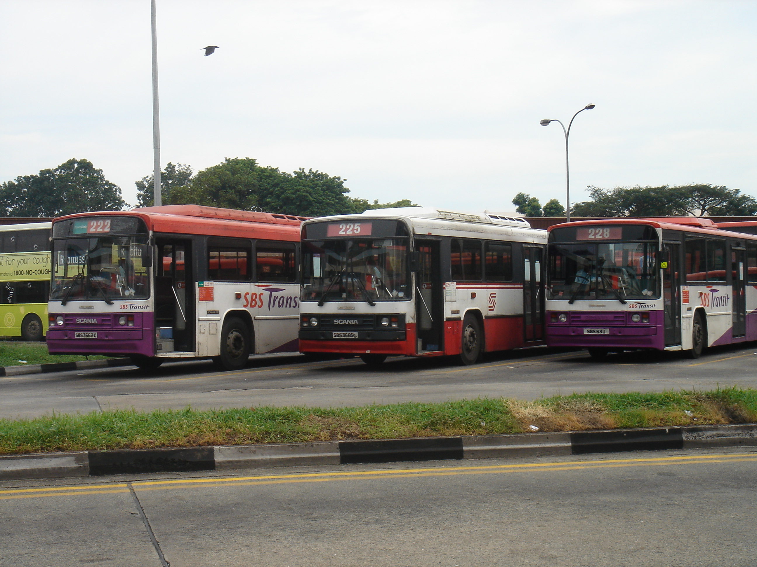 Alexander PS bodied Scania N113CRB buses at Bedok Bus Interchange in Singapore. (From left to right: SBST converted A/C [SBS3662X, built 1990], SBS converted A/C [SBS3685E or SBS3685C, built 1990], SBST original A/C [SBS63U, built 1989]).